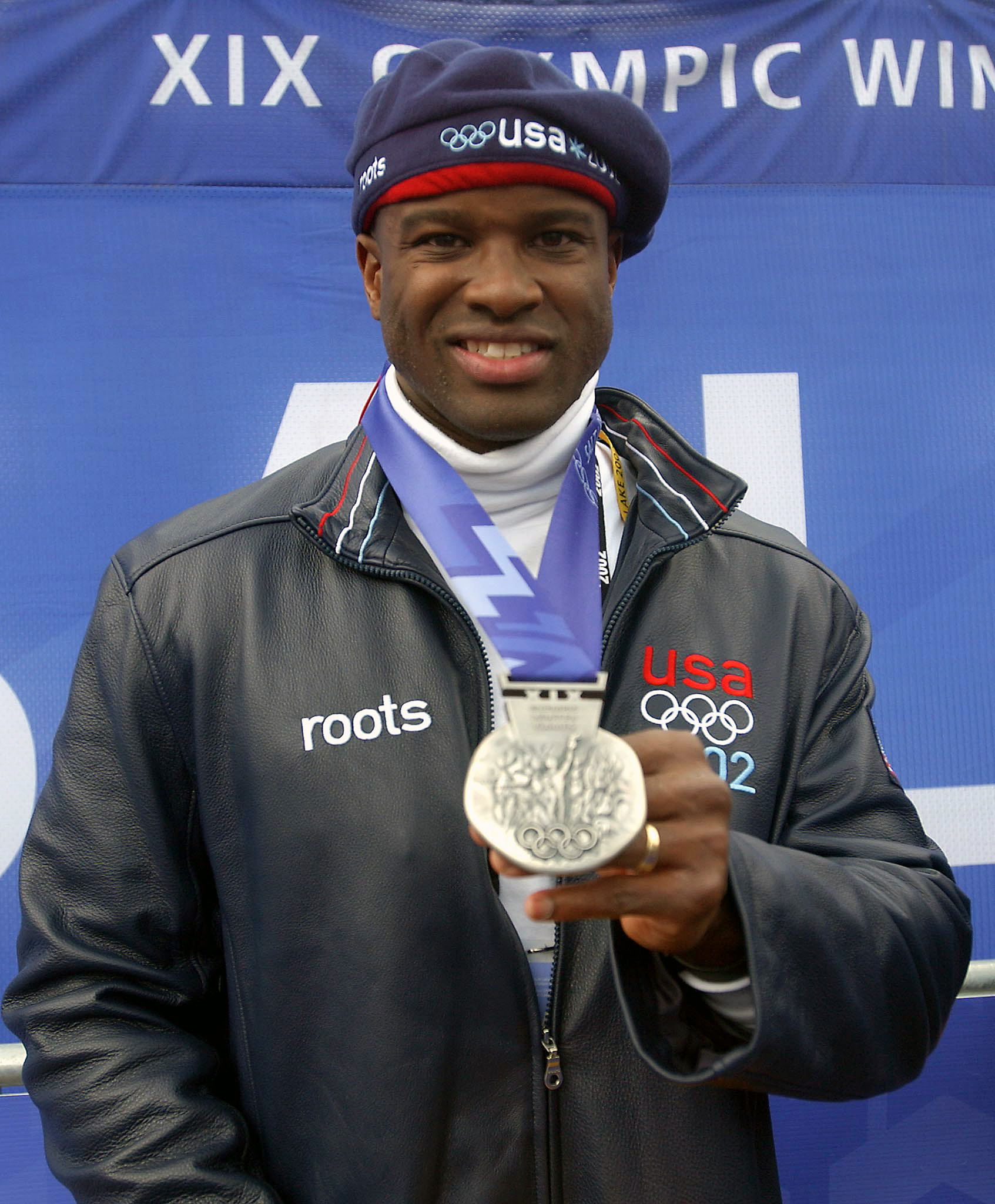 Army reservist First Lieutenant Garrett Hines shows off his newly awarded silver medal for the men's four-man bobsled after a 2002 WINTER OLYMPIC GAMES medal ceremony in Salt Lake City.